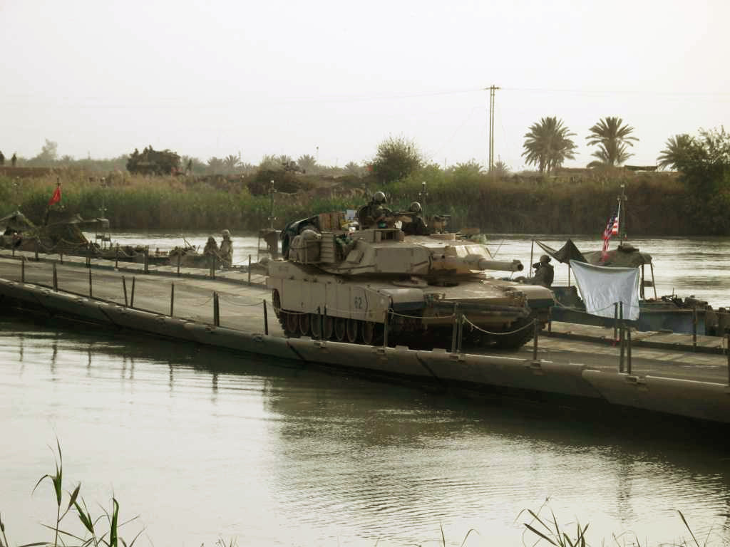 US Army Abrams crossing Euphrates River